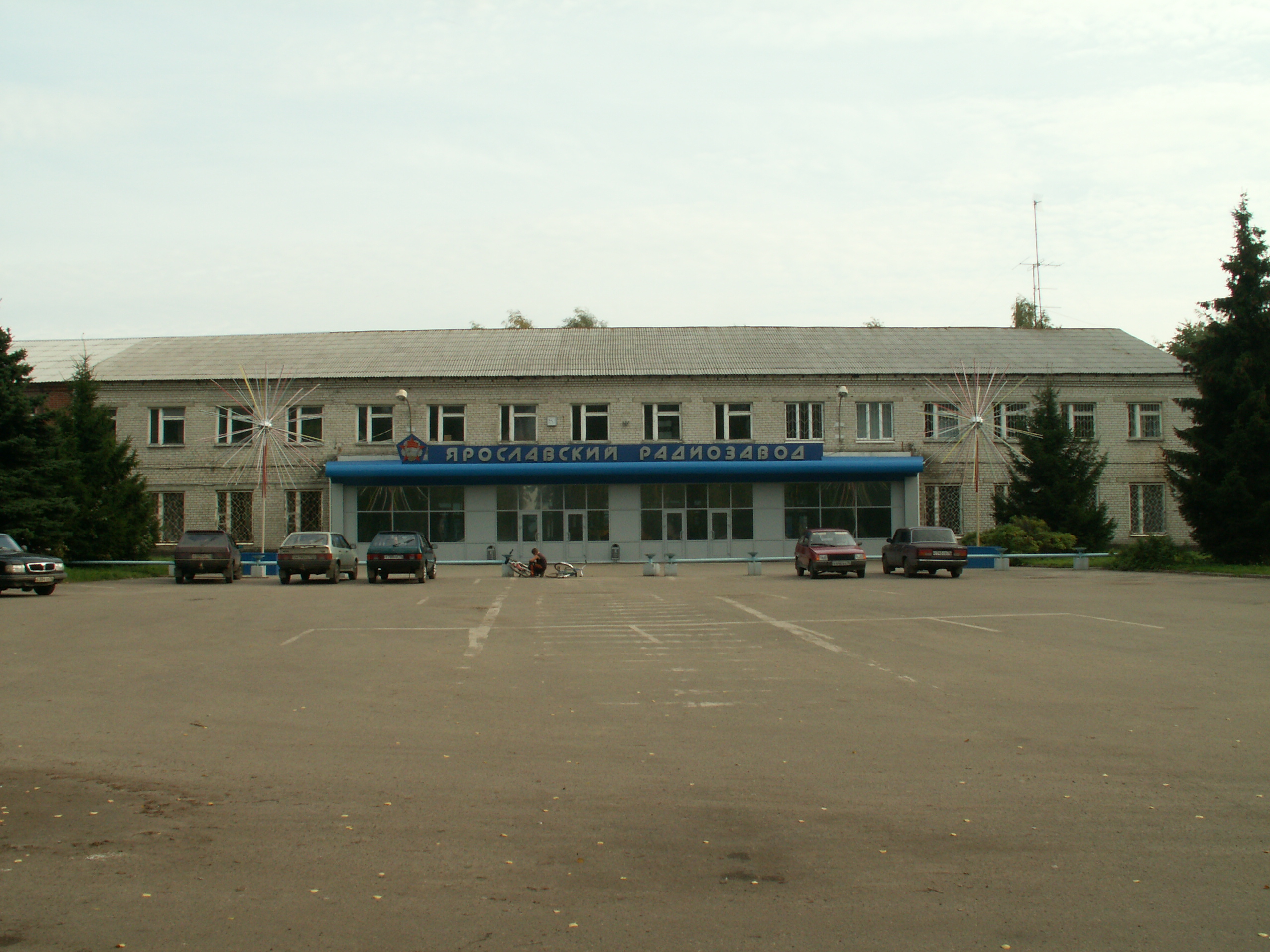 Radiotechnical factory in Yaroslavl